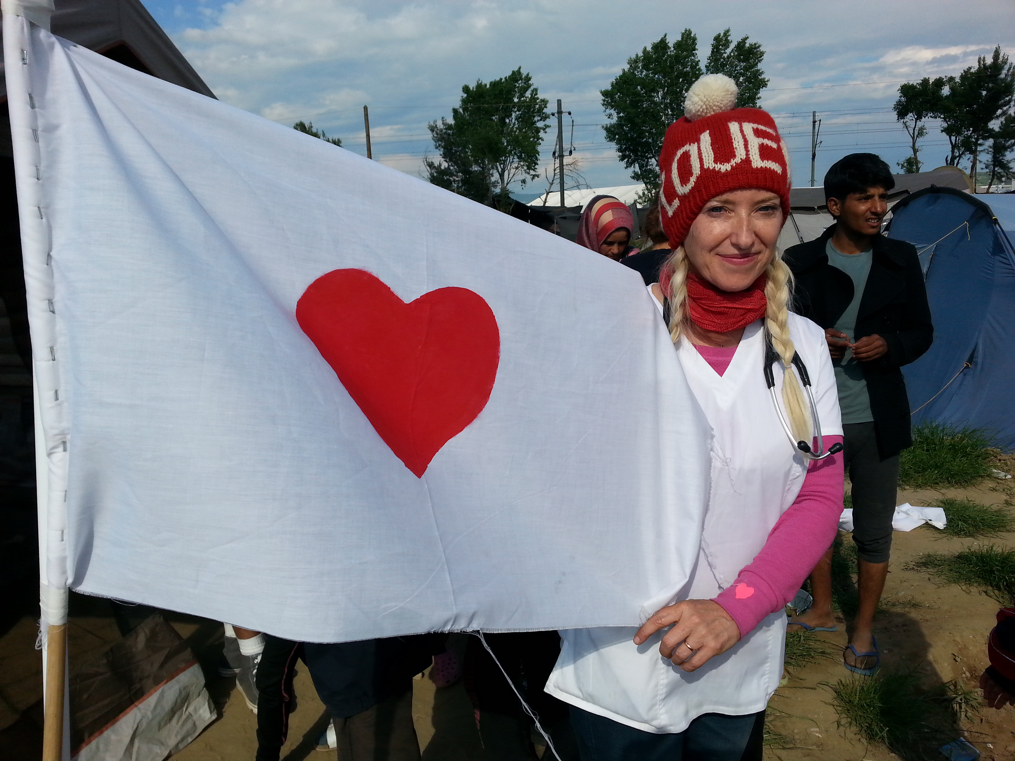 Dr. Alison Thompson holding her heart flag she planted at Idomeni Refugee camp, greece